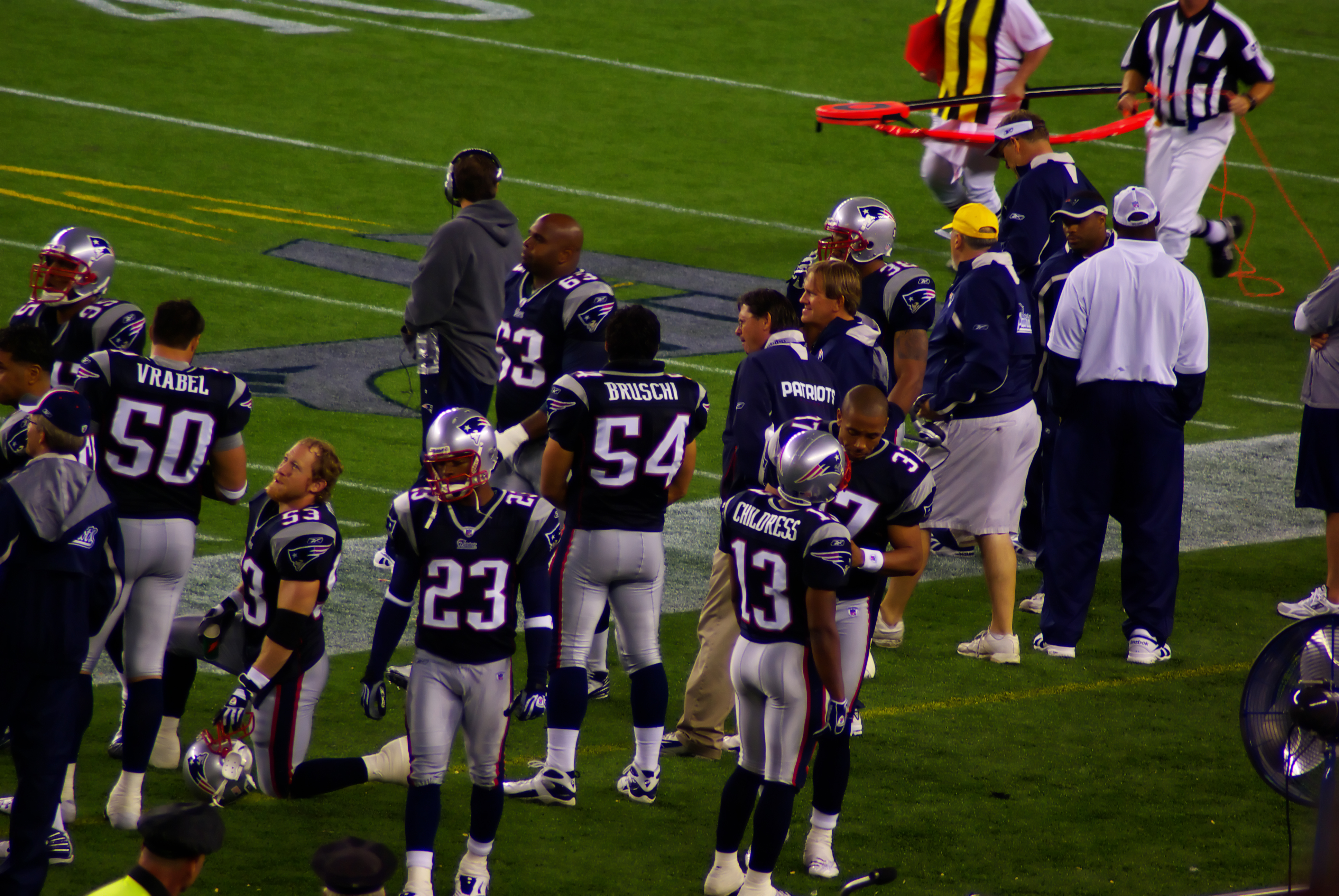 New England Patriots players on sideline during preseason game vs. Tennessee Titans. See w:2007 New England Patriots season#Opening_training_camp_roster